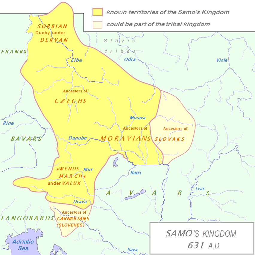 Tribal Kingdom of Samo. Map is based on the maps in: Korošec, Paola (1990): Alpski Slovani-Die Alpenslawen, Ljubljana, Znanstveni institut Filozofske fakultete, unnamed map on the page 18; Šavli, Jožko (1995): Sovenija: Podoba evropskega naroda, Bilje, založba Humar, map Samovo kraljestvo on the page 19; Barford, Paul M. (2001): The Early Slavs, Cornell University Press, map on the page 356, named Geography of the Slav settlement of Polabia - concerning the location of Sorbs east of Saale; map IV on page 397 for Sorbian culture, Devinska Nova Ves culture and Avarian state. It is also based on descriptions in: Štih, Peter (2001): Ozemlje Slovenije v zgodnjem srednjem veku: osnovne poteze zgodovinskega razvoja od začetka 6. do konca 9. stoletja, Ljubljana, Filozofska fakulteta; page 30 - concerning the relationship between king Samo and the ancestors of Slovenians; Korošec, Paola (1990): Alpski Slovani-Die Alpenslawen, Ljubljana, Znanstveni institut Filozofske fakultete, page 17 – concerning the Sorbs and their duke Dervan. For eastern and southern extant of tribal kingdom: known territories are shown by the scheme of franco-slavic border and information about the conflicts with Avars is imlemented. The inclusion of Bohemian basin is followed. Contacts with Avars are reached through the territory of Moravians and Eastern Alps. The territories further east and south, which are in proximity of Avars, could be parts of tribal kingdom, too.